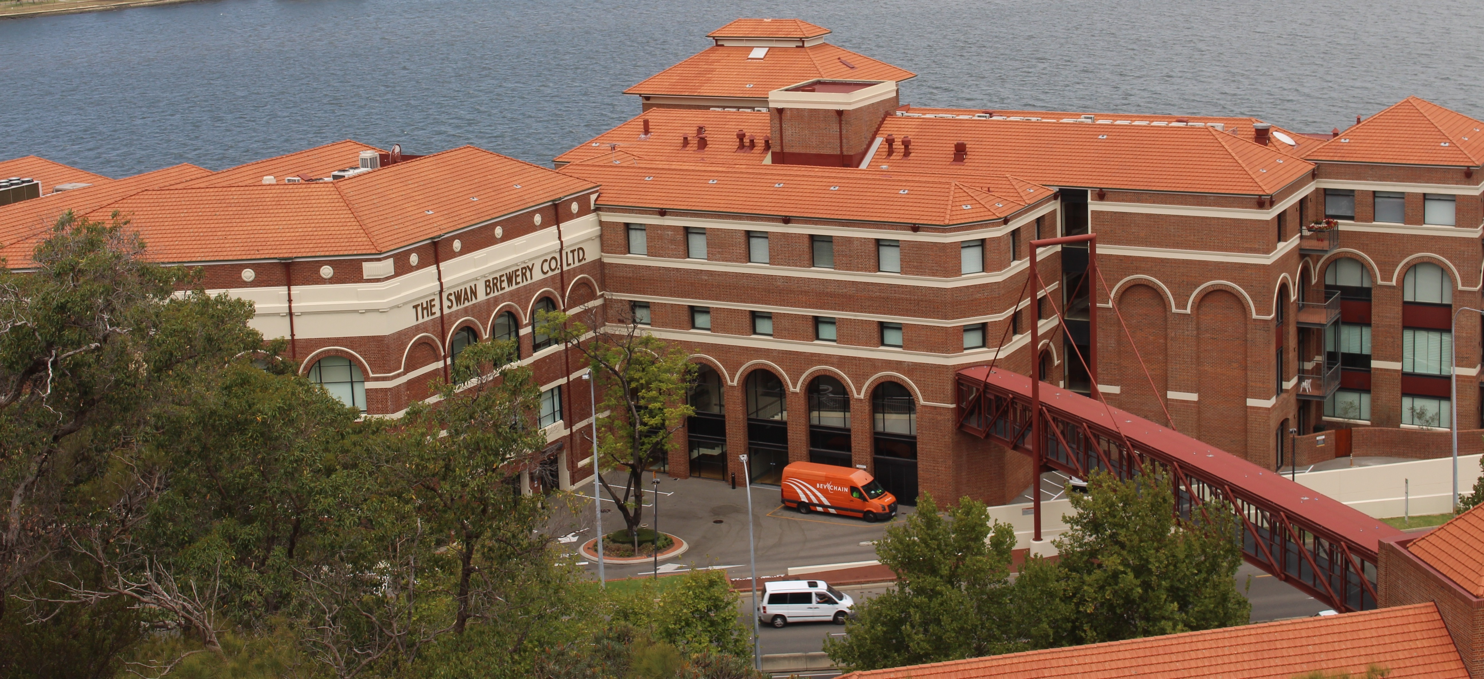 Old Swan Brewery as viewed from Kings Park, Perth, Western Australia